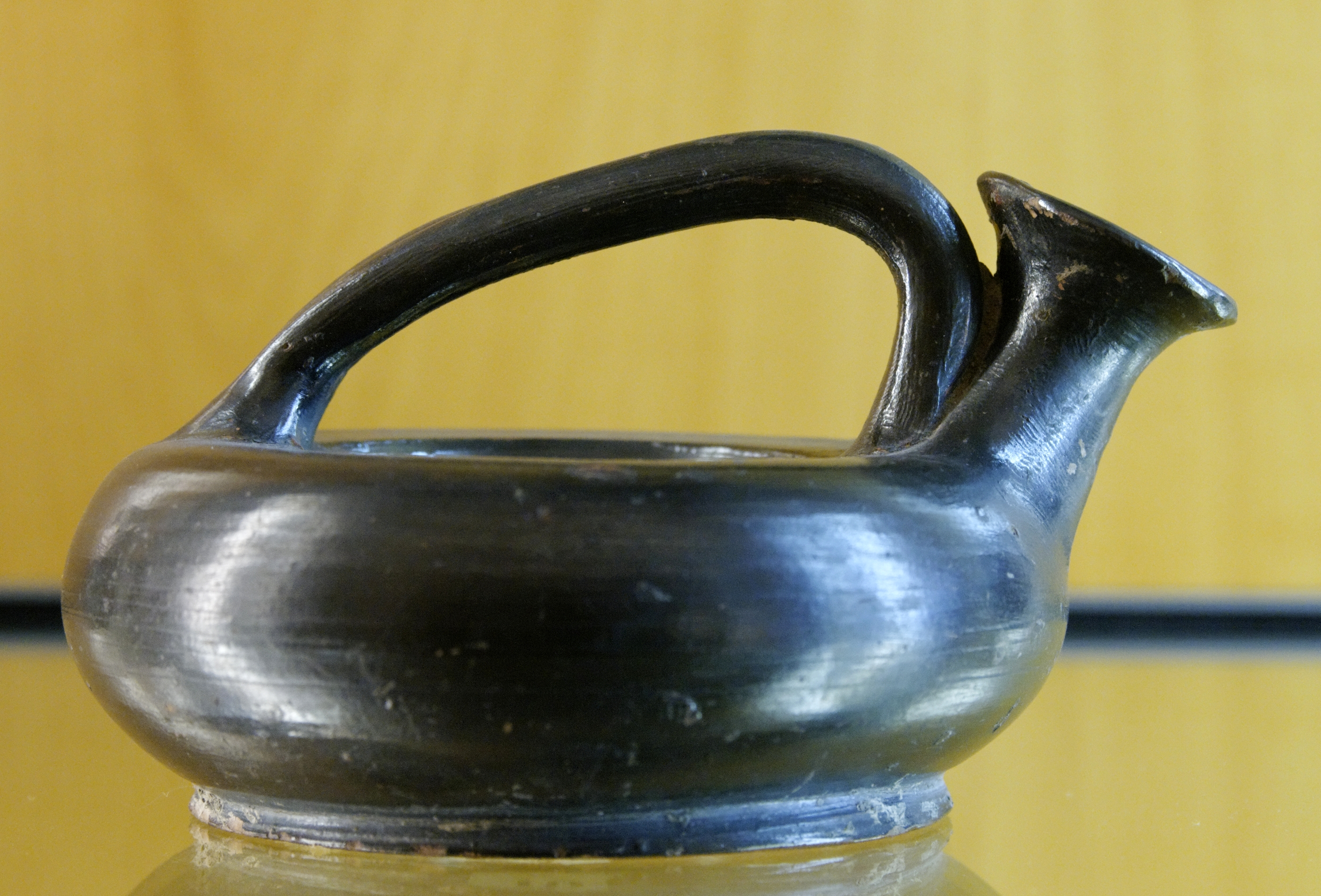 Attic black-glaze askos, 5th century BC.